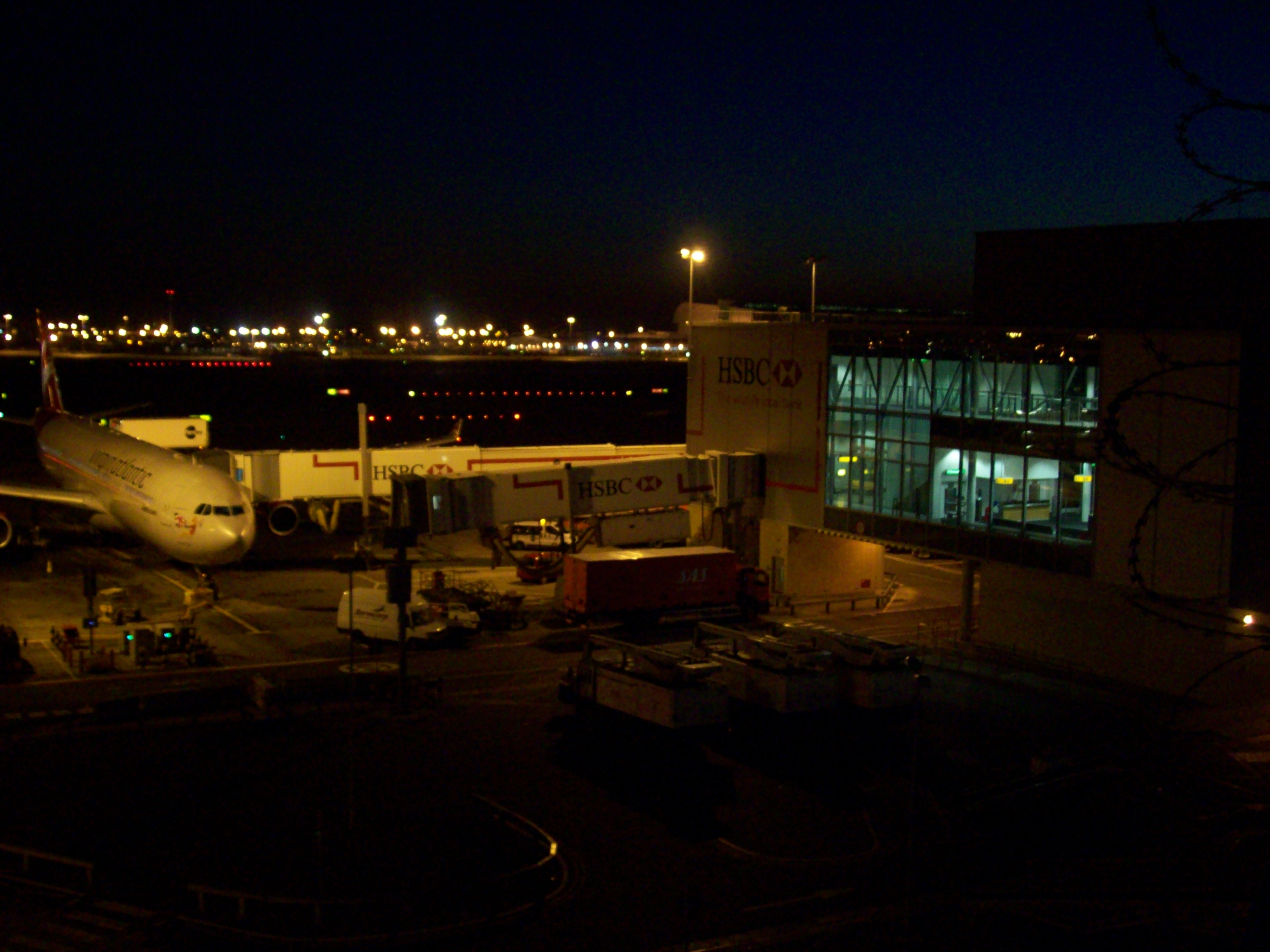 Heathrow Terminal 3's Pier 6 at night showing a Virgin Atlantic A340 on stand - this aircraft pier was completed in 2006 to handle the Airbus A380